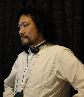 Koji Igarashi, videogames producer.